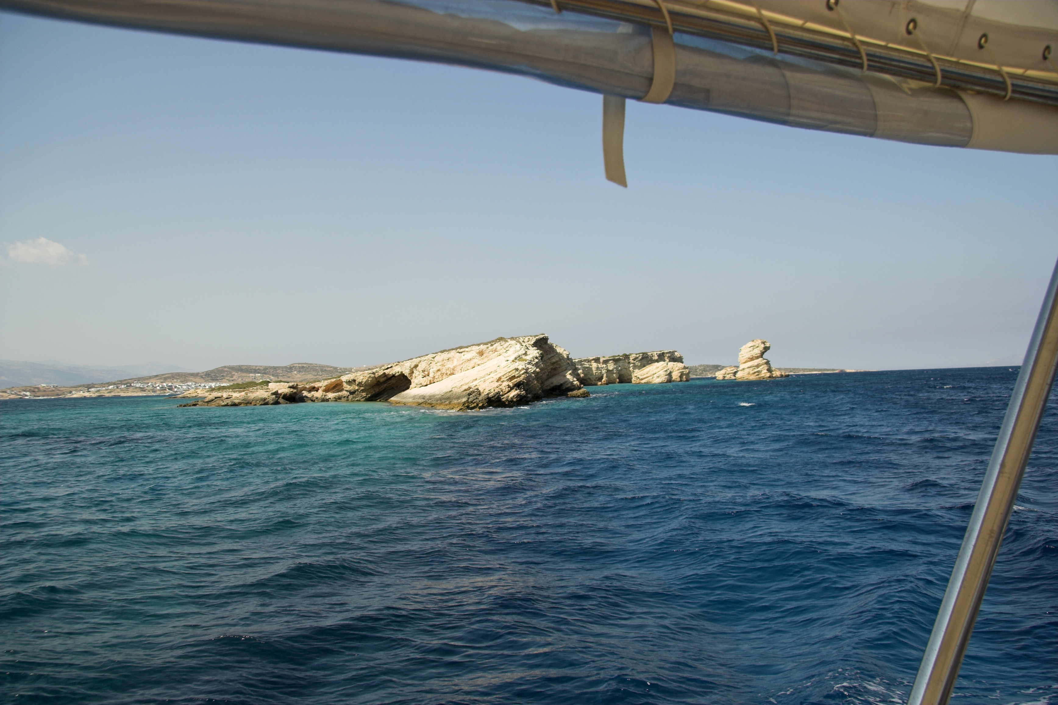 Glaronisi from the south. Behind him is seen Pano Koufonisi.